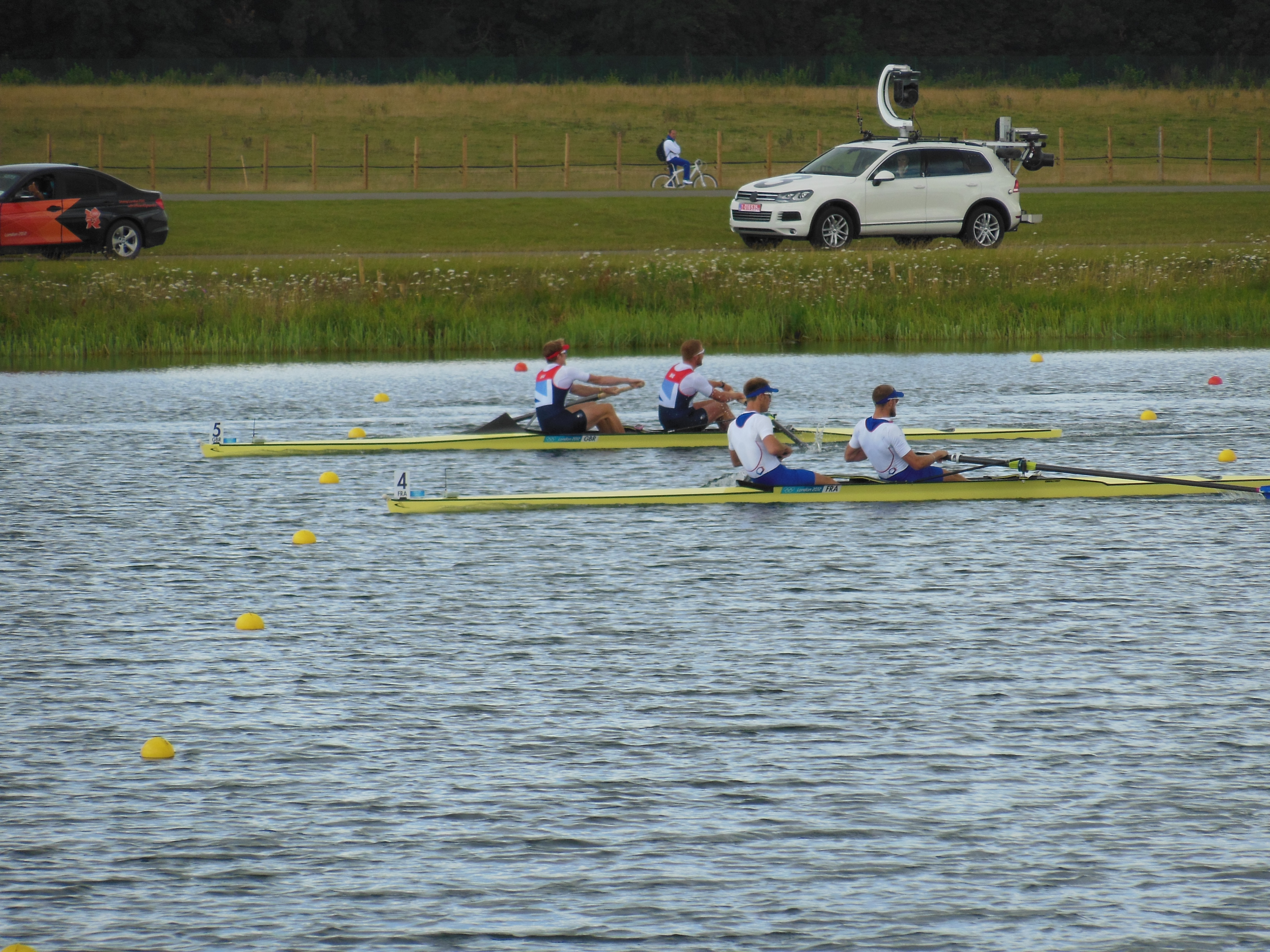 01 ! Eric Murray Hamish Bond New Zealand 6:16.65 02 ! Germain Chardin Dorian Mortelette France 6:21.11 03 ! George Nash William Satch Great Britain 6:21.77 4 Niccolo Mornati Lorenzo Carboncini Italy 6:26.17 5 James Marburg Brodie Buckland Australia 6:29.28 6 David Calder Scott Frandsen Canada 6:30.49